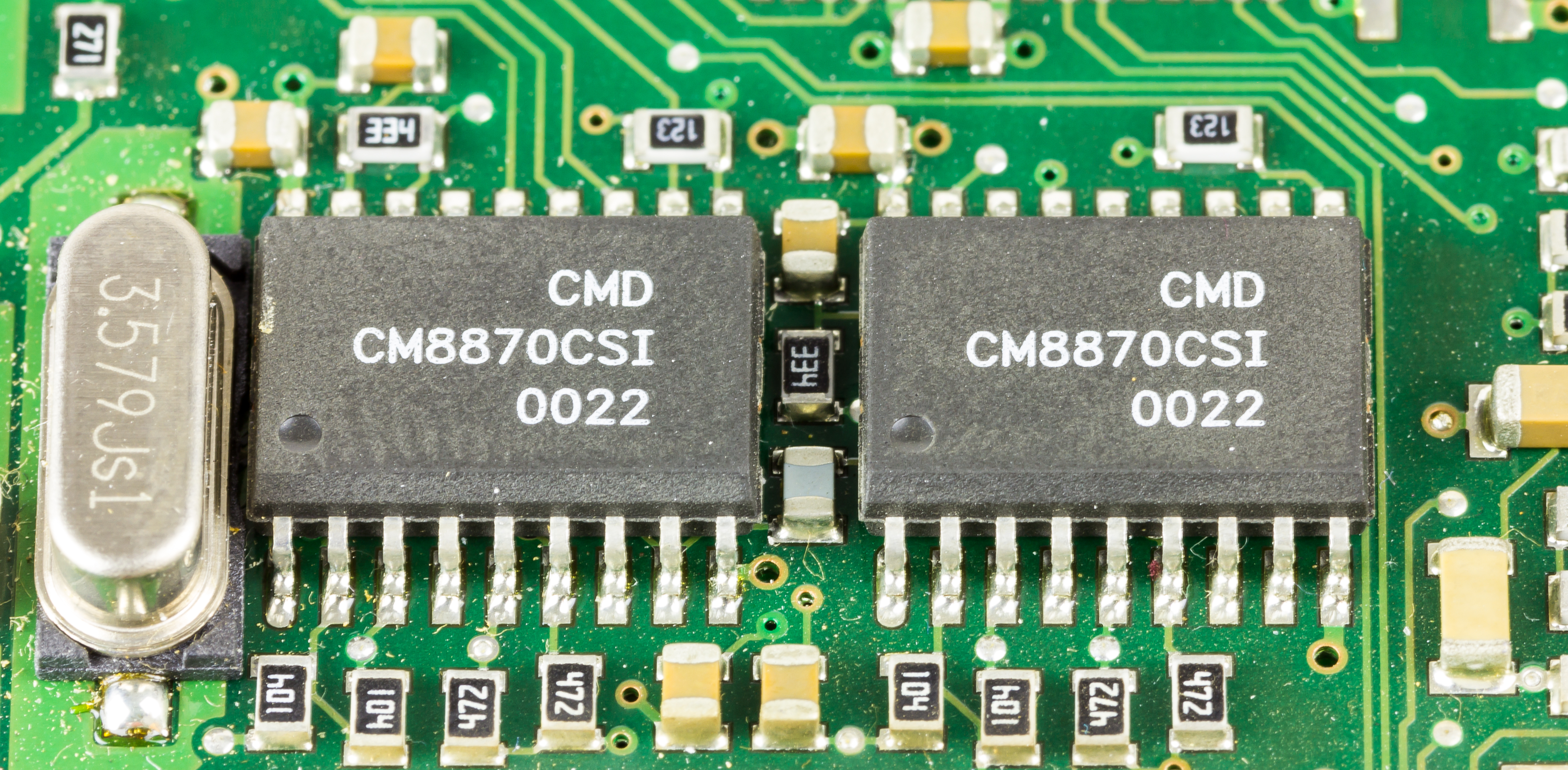 1&1 NetXXL powered by FRITZ! - CMD CM8870CSI (CMOS Integrated DTMF Receiver) on mainboard